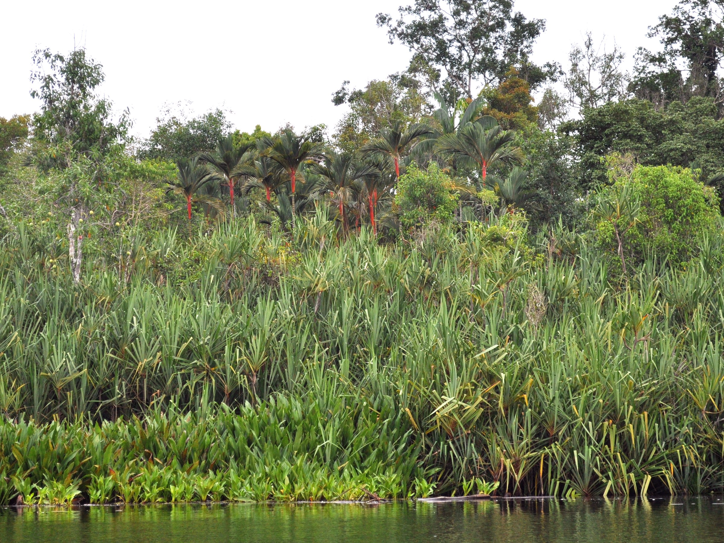 Rasau, Pandanus helicopus thickets, at the riverbank of Tempapan Kiri River, West Kalimantan, Indonesia. At their natural habitat, it was mixed with wild water lily, Hanguana malayana (front left); the Suicide Tree Cerbera odollam (fruiting tree at back left); and Red Sealing Wax Palm Cyrtostachys renda (mid back, with red leaf-sheath).